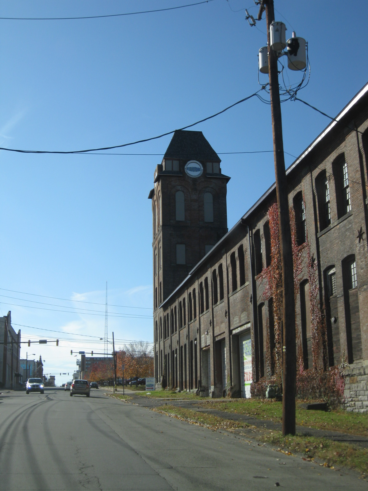 Scranton, Pennsylvania